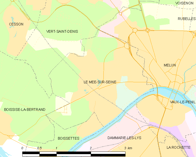 Map of French municipality Le Mée-sur-Seine